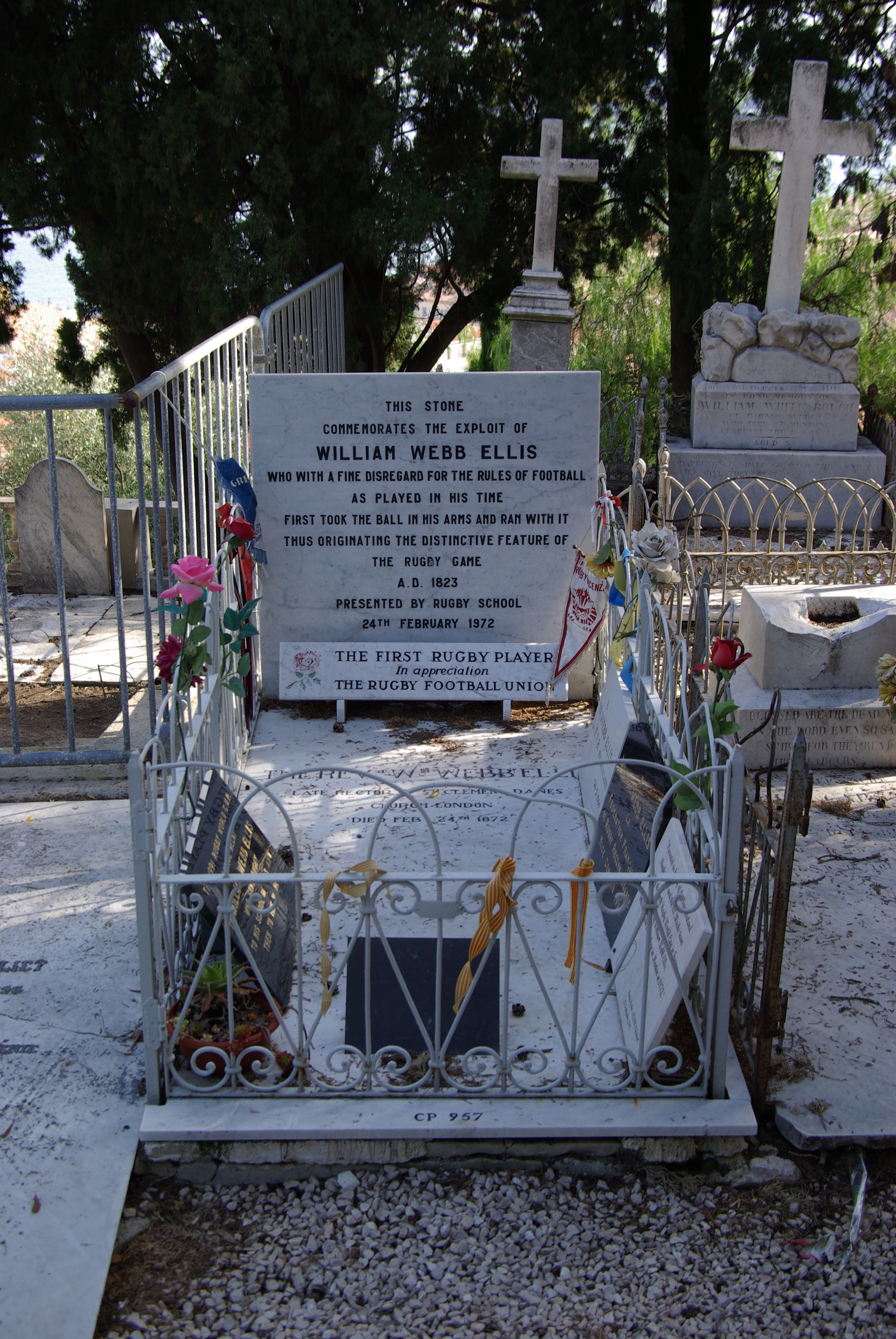 France, Menton, Tomb of William Webb Ellis, the inventor of Rugby football